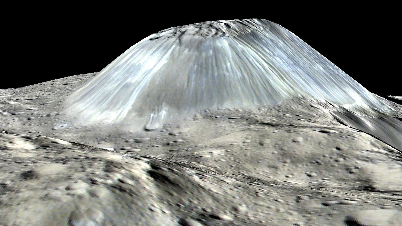 PIA20915: Ahuna Mons: Side View Ceres' lonely mountain, Ahuna Mons, is seen in this simulated perspective view. The elevation has been exaggerated by a factor of two. The view was made using enhanced-color images from NASA's Dawn mission. Images taken using blue (440 nanometers), green (750 nanometers) and infrared (960 nanometers) spectral filters were combined to create the view. The spacecraft's framing camera took the images from Dawn's low-altitude mapping orbit, from an altitude of 240 miles (385 kilometers) in August 2016. The resolution of the component images is 120 feet (35 meters) per pixel. Dawn's mission is managed by JPL for NASA's Science Mission Directorate in Washington. Dawn is a project of the directorate's Discovery Program, managed by NASA's Marshall Space Flight Center in Huntsville, Alabama. UCLA is responsible for overall Dawn mission science. Orbital ATK, Inc., in Dulles, Virginia, designed and built the spacecraft. The German Aerospace Center, the Max Planck Institute for Solar System Research, the Italian Space Agency and the Italian National Astrophysical Institute are international partners on the mission team. For a complete list of mission participants, For more information about the Dawn mission, visit